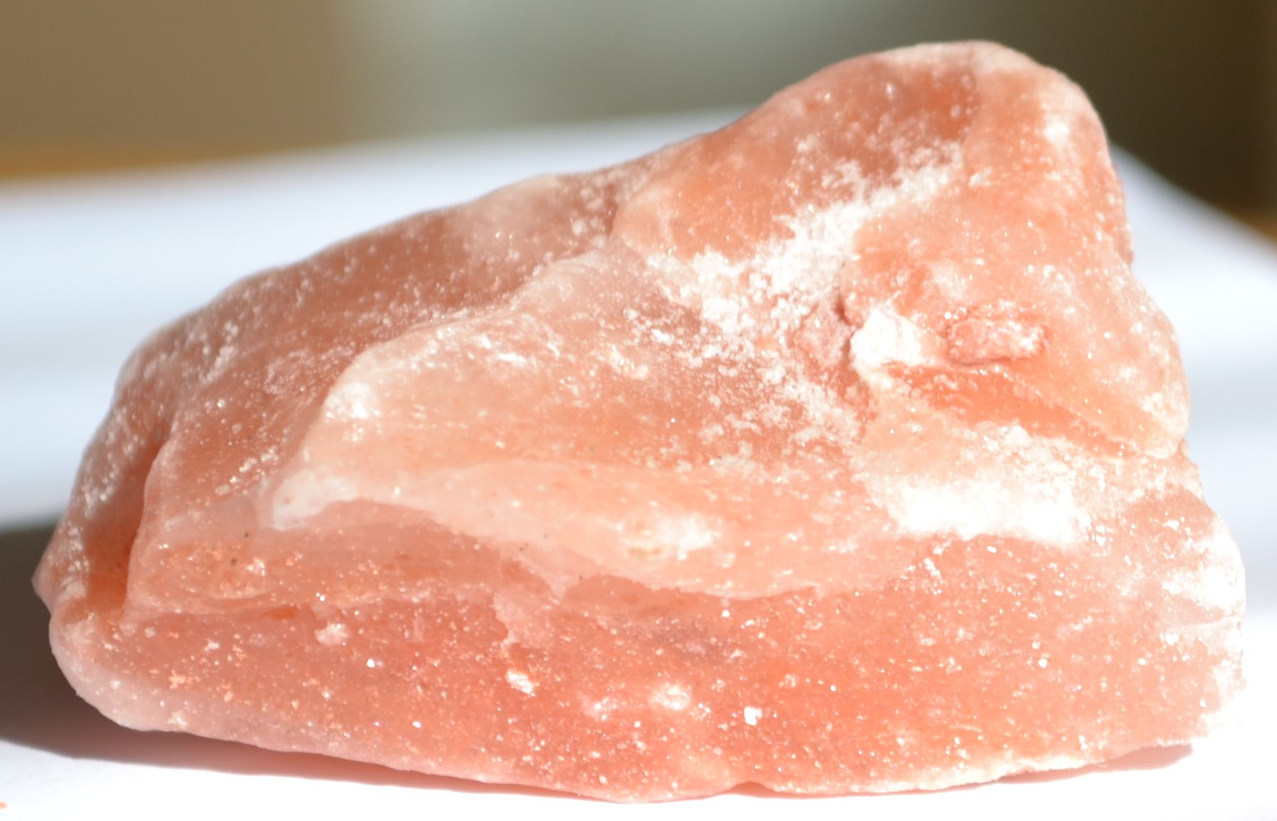 Pink rock salt from Khewra Salt Mine.